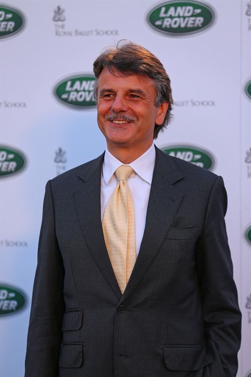 The All-New Range Rover | Global Reveal